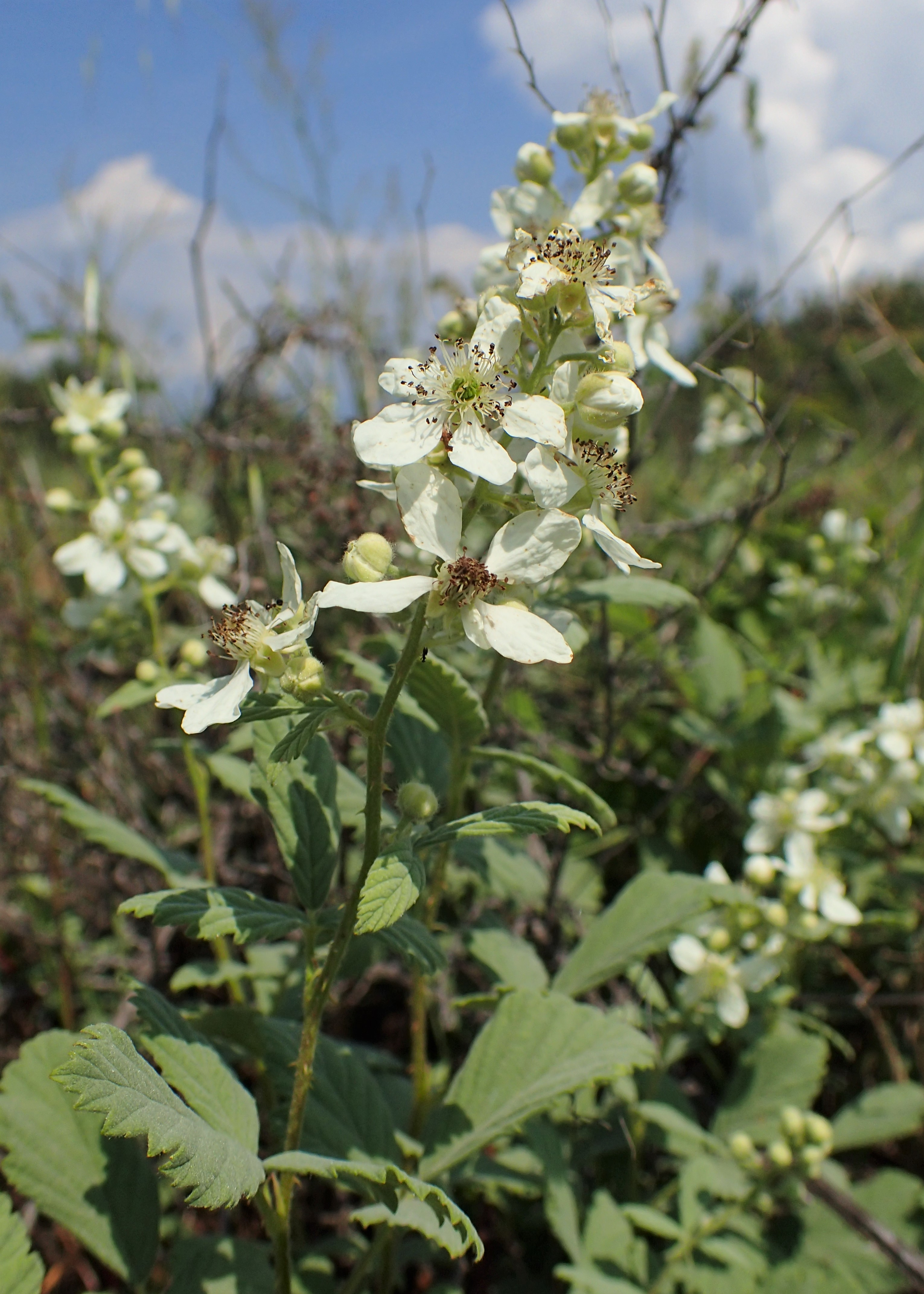 Rubus canescens in Plagia near Cherso, N Greece